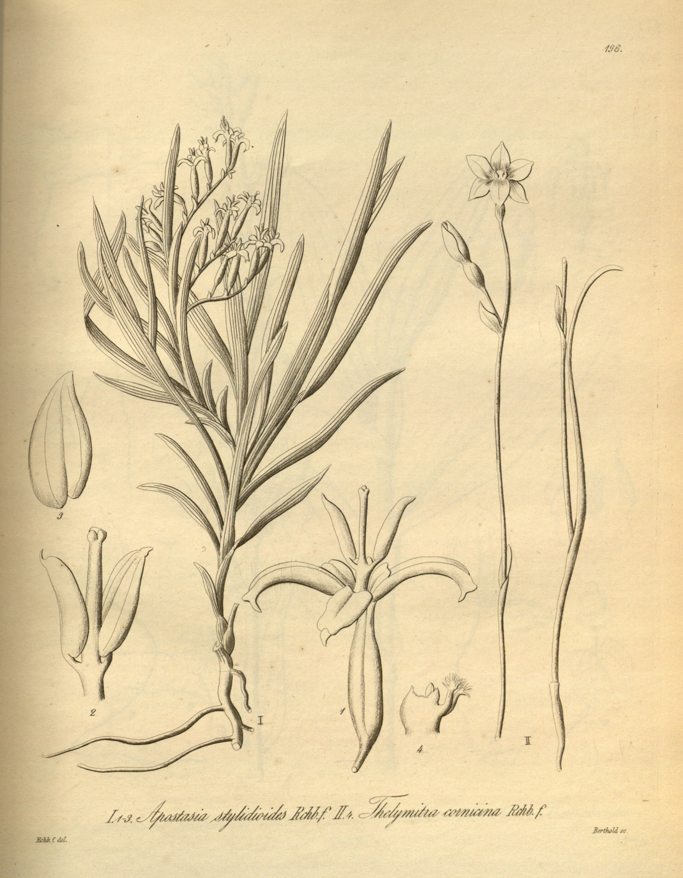 Illustration of I: Apostasia wallichii (as syn. Apostasia stylidioides) II: Thelymitra cornicina